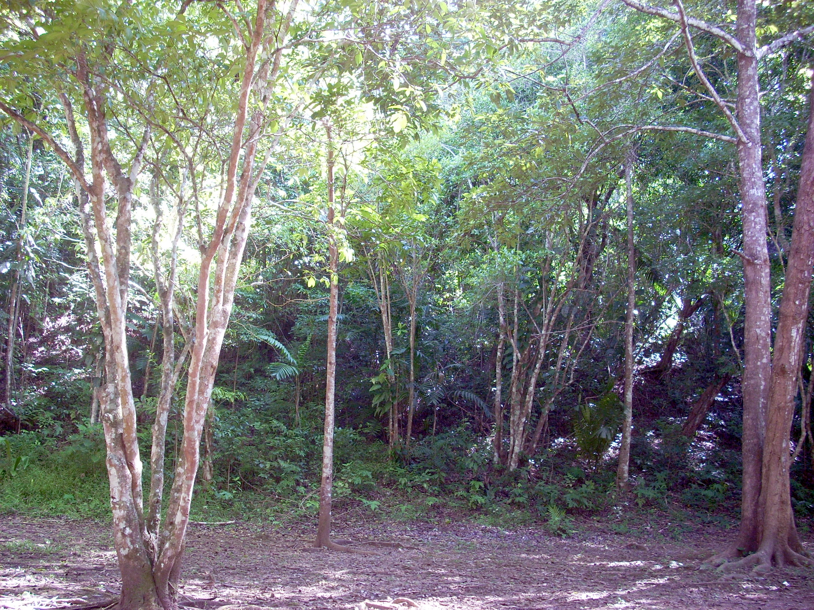 The heavily forested acropolis at El Chal, seen from the West Plaza. Peten, Guatemala.